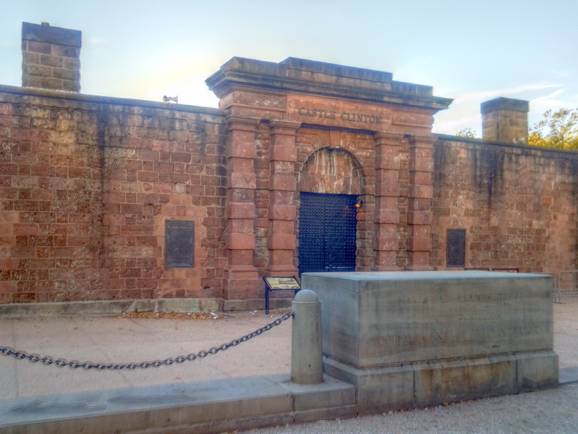 Castle Clinton National Monument